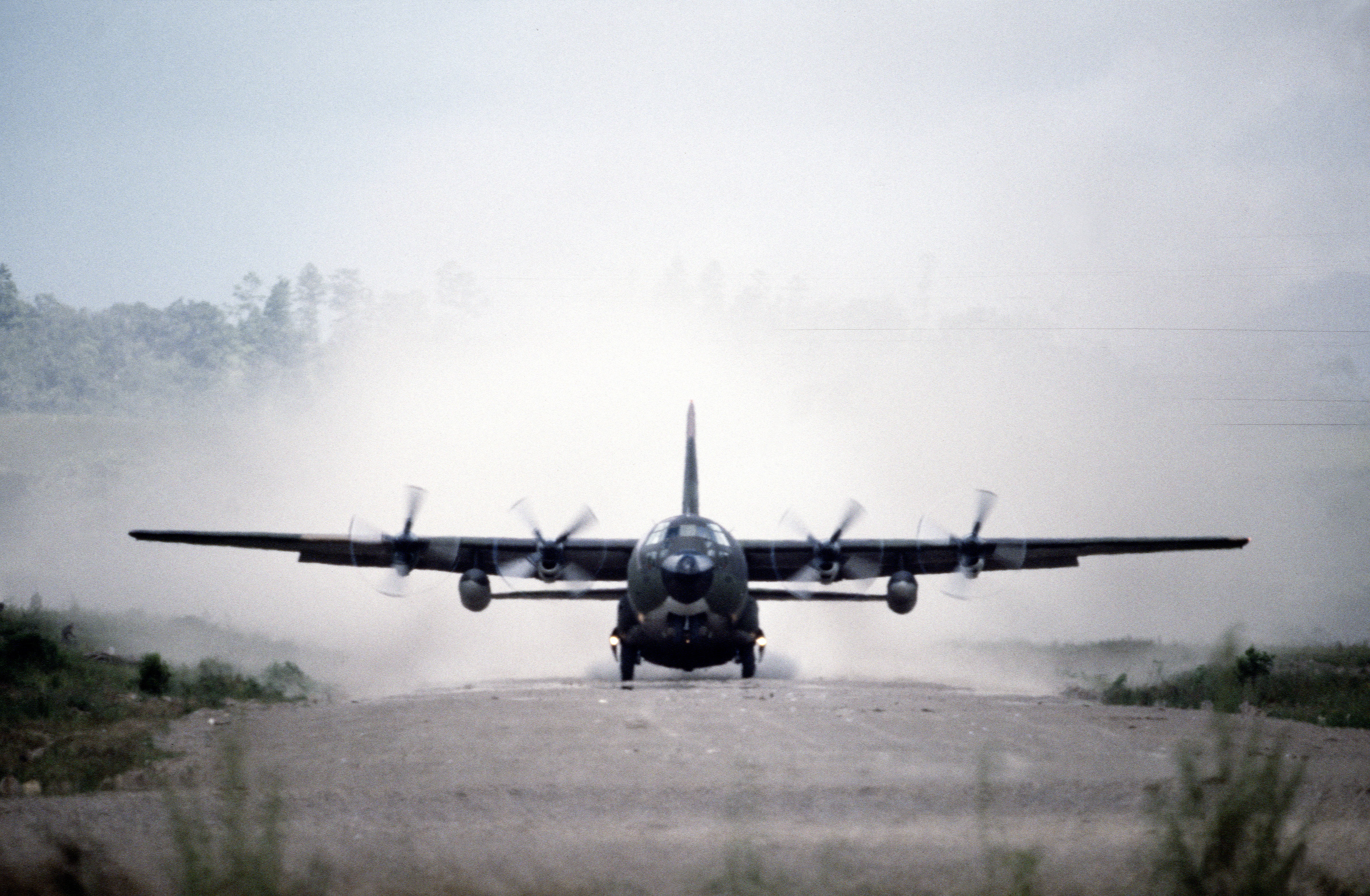 A U.S. Air Force Lockheed C-130E Hercules aircraft taking off during the joint US/Honduran training exercise "Ahuas Tara II (Big Pine)" in 1983.